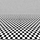 antialiased chessboard